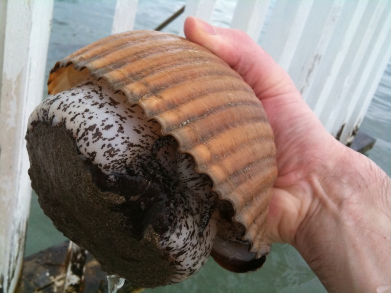 Tonna Galea, found in 500cm of water on sandy bottom at Astir Beach, Vouliagmeni, Attika, Greece on 17 October 2010